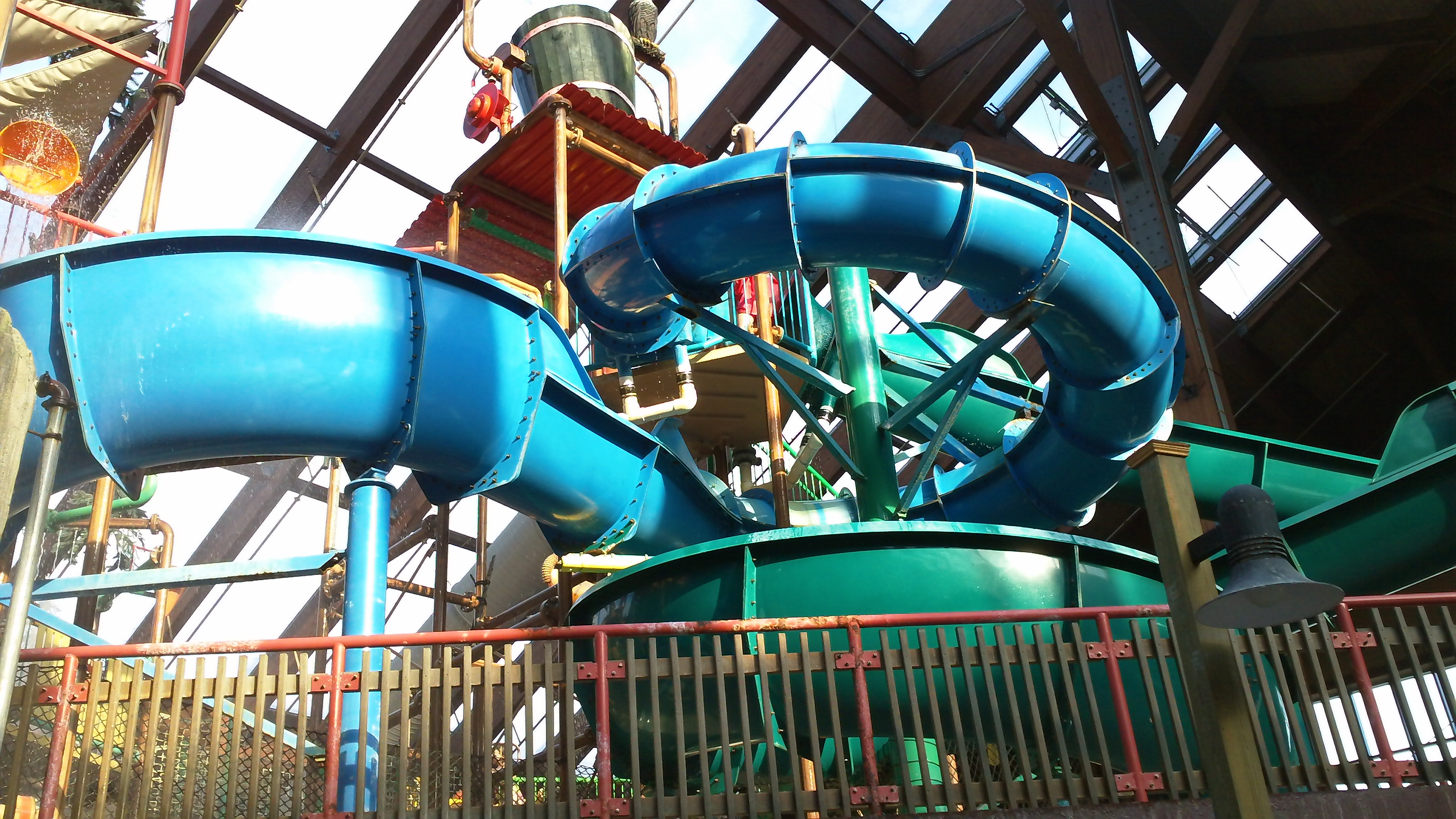 This is a picture of two of the water slides in the tall timber treehouse structure, at the Great Escape Lodge.